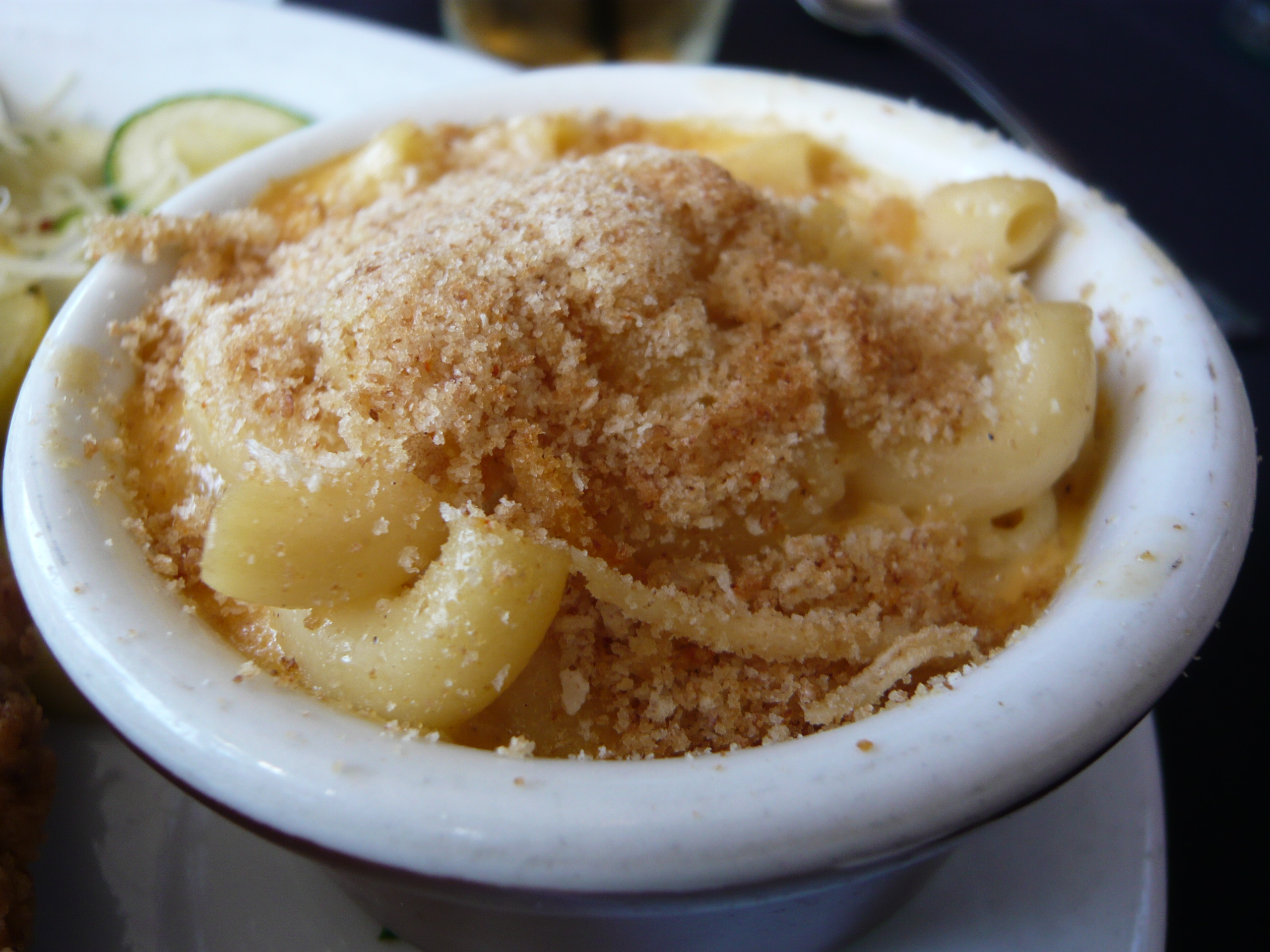 A closeup of the side dish of macaroni and cheese included with a meal of chicken fried steak and vegetables. The food was served by Moonshine Patio Bar & Grill at 303 Red River Street in Austin, Texas, USA.